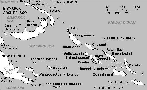 An area of Solomon Islands and Bismarck Archipelago, with places connected with WWII battles